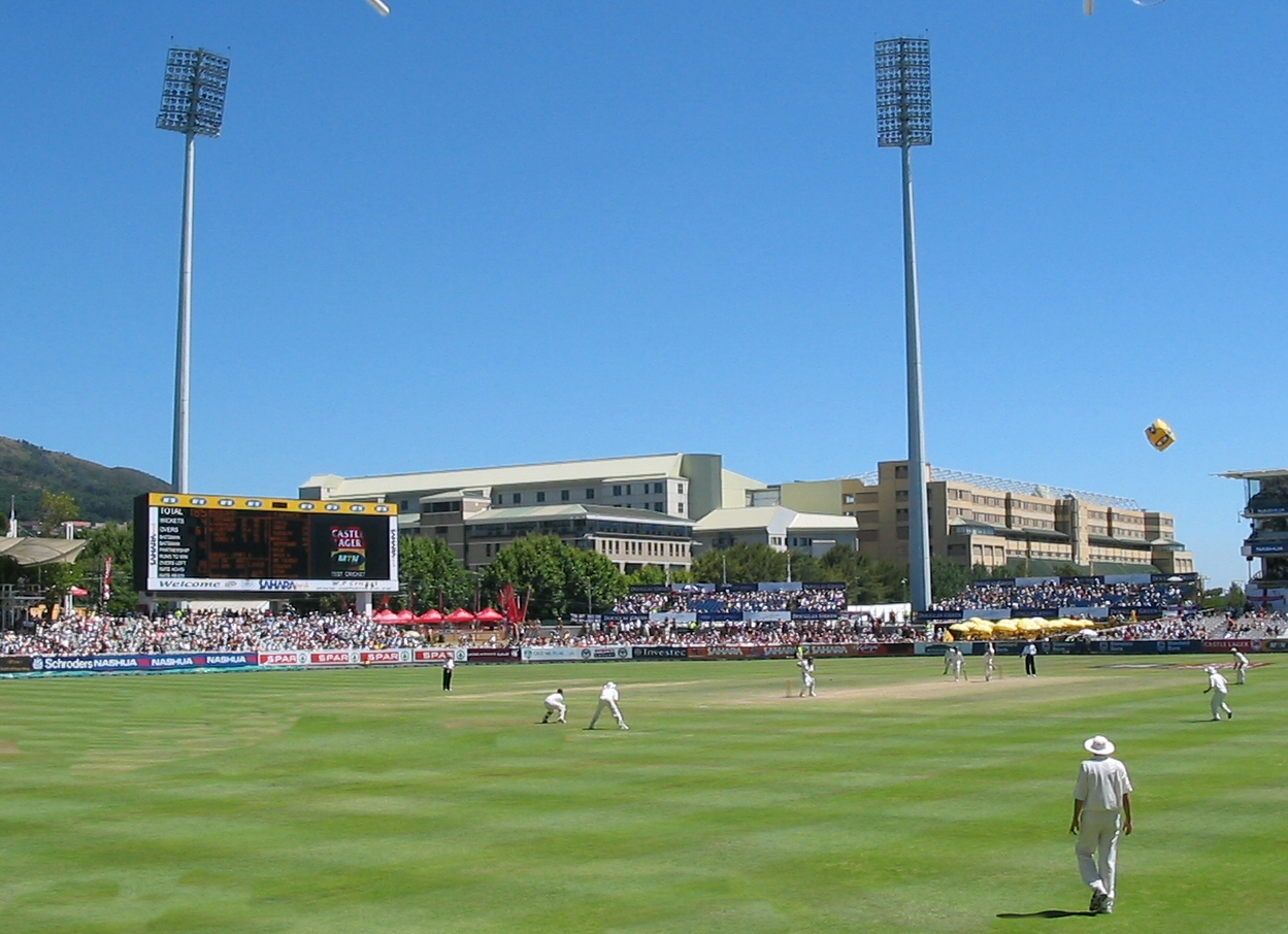 Newlands Cricket Ground. Photo by Paddy Briggs